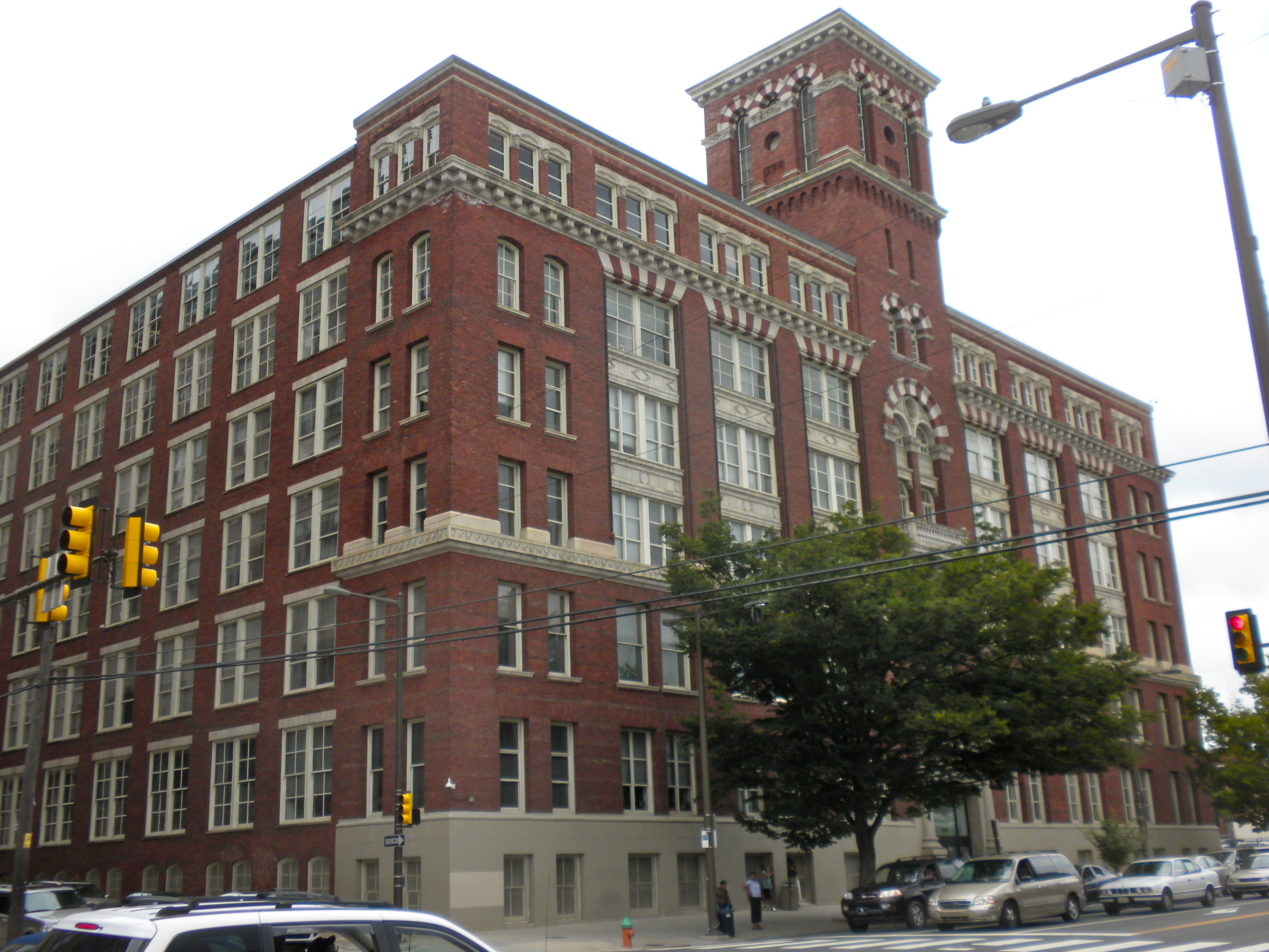 Snellenburg's Clothing Factory on the NRHP since September 2, 1986. At 642 North Broad St., Philadelphia in the Spring Garden neighborhood of North Philly.